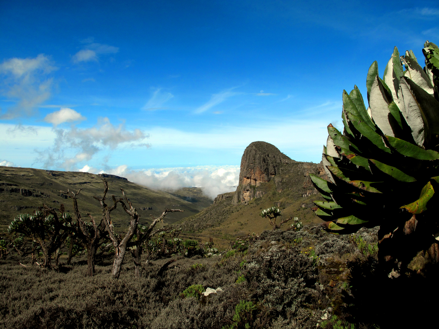 Mount Elgon flora — Uganda.